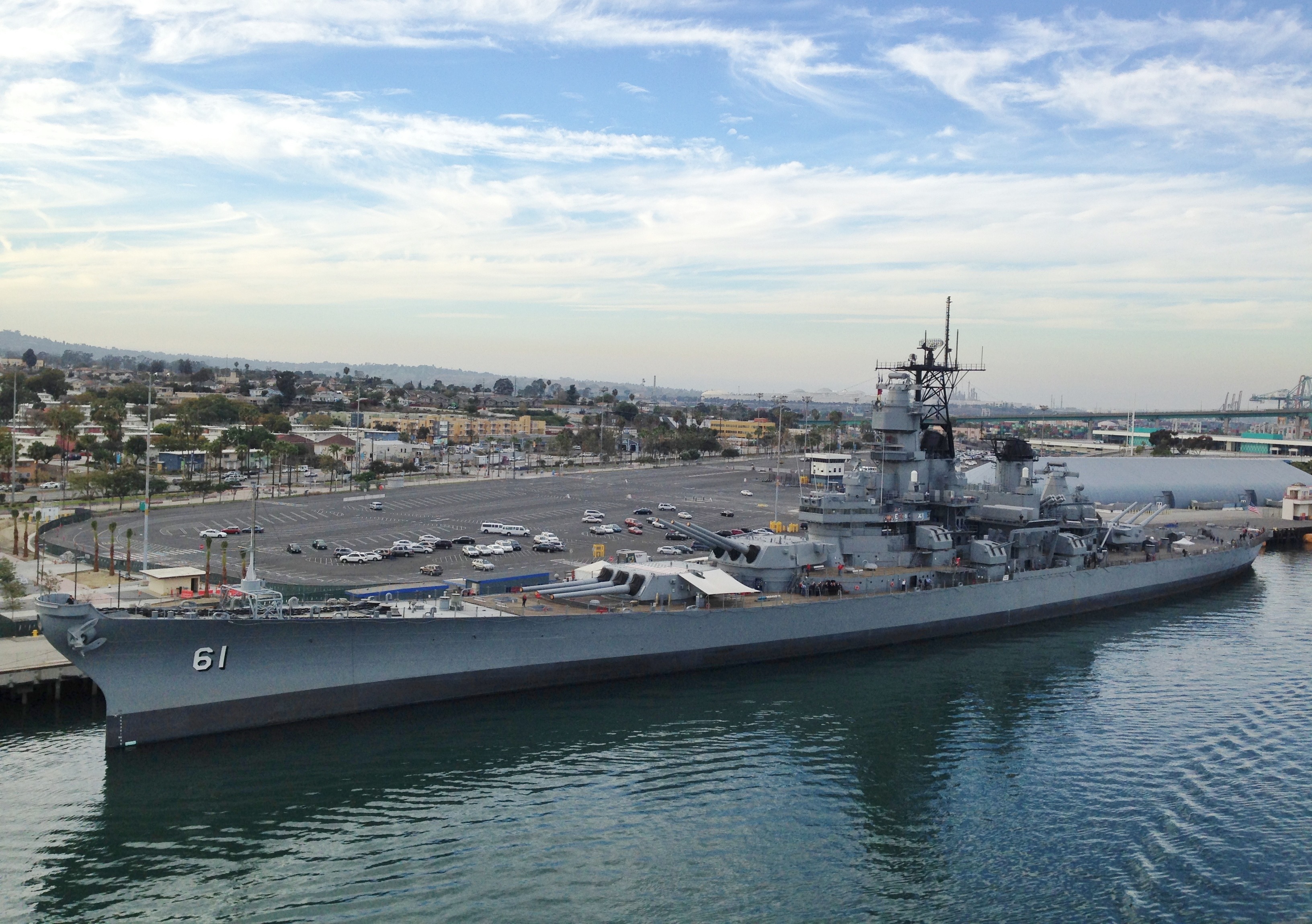 A port side view of the Battleship USS Iowa departing on a cruise ship at the Port of Los Angeles